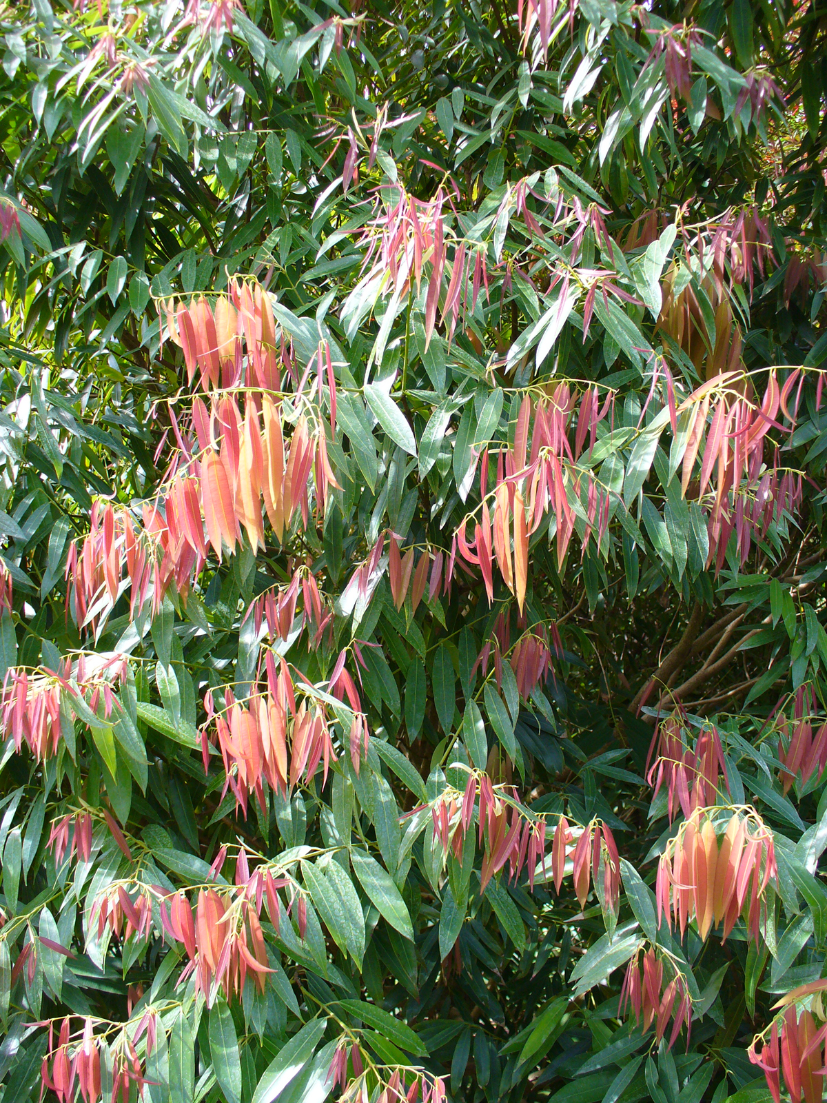 Mesua ferrea Fairchild Tropical Botanic Garden, Miami, Florida, USA